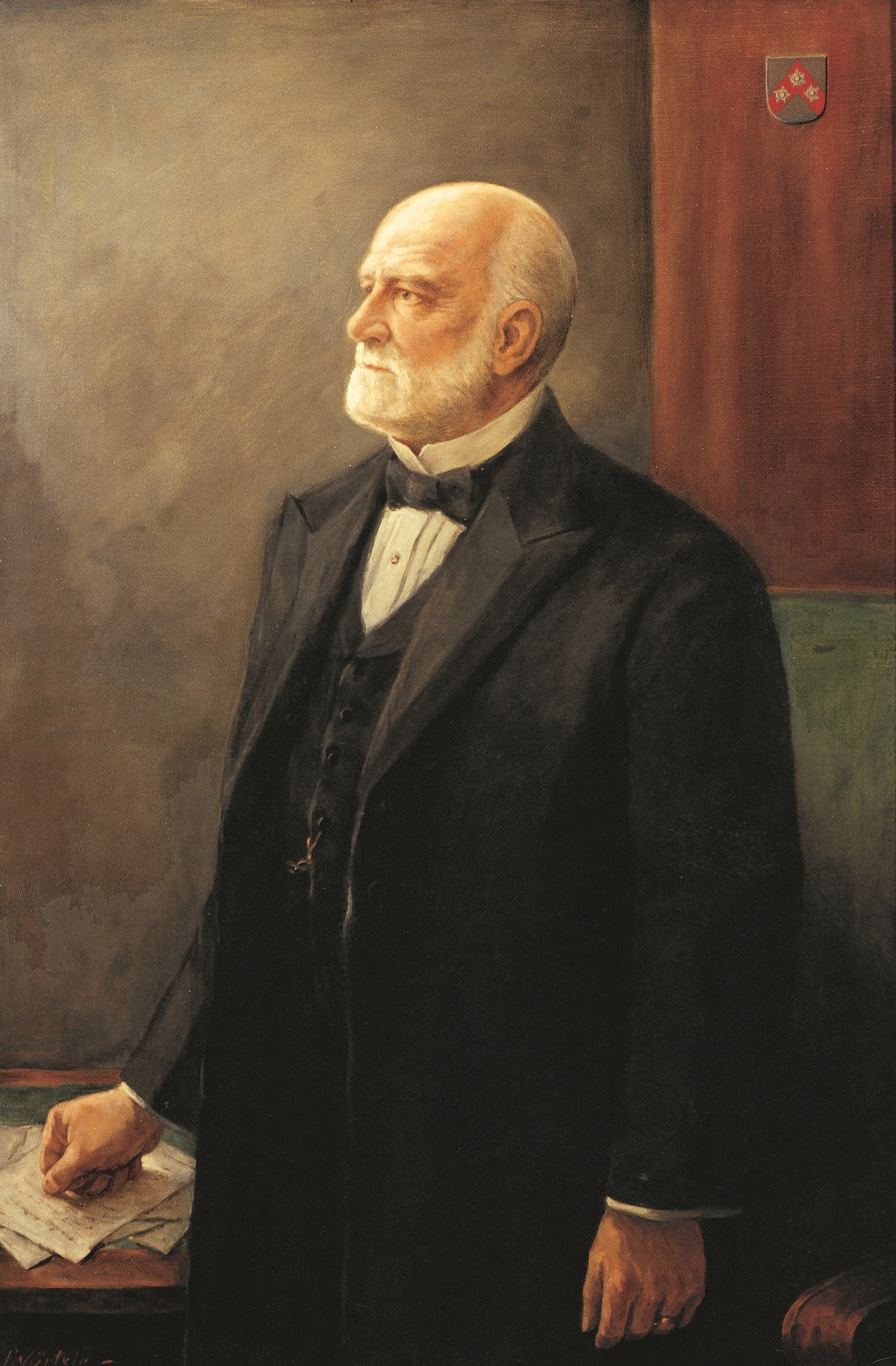 Carl Röchling (1827-1910) ran the company at the turn of the 19th to the 20th century.